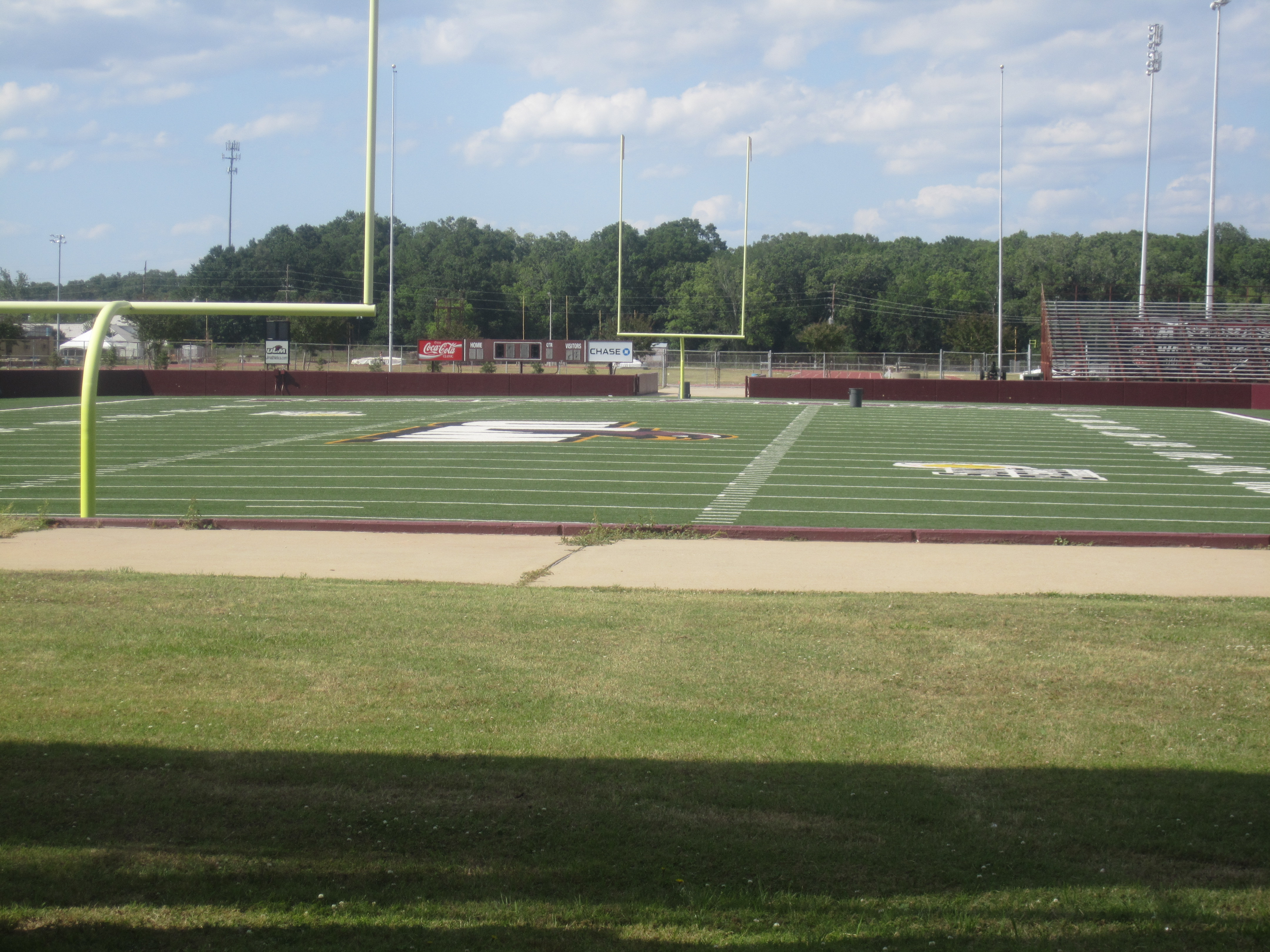 I took photo with Canon camera in Monroe, LA: the football field of the ULM Warhawks.